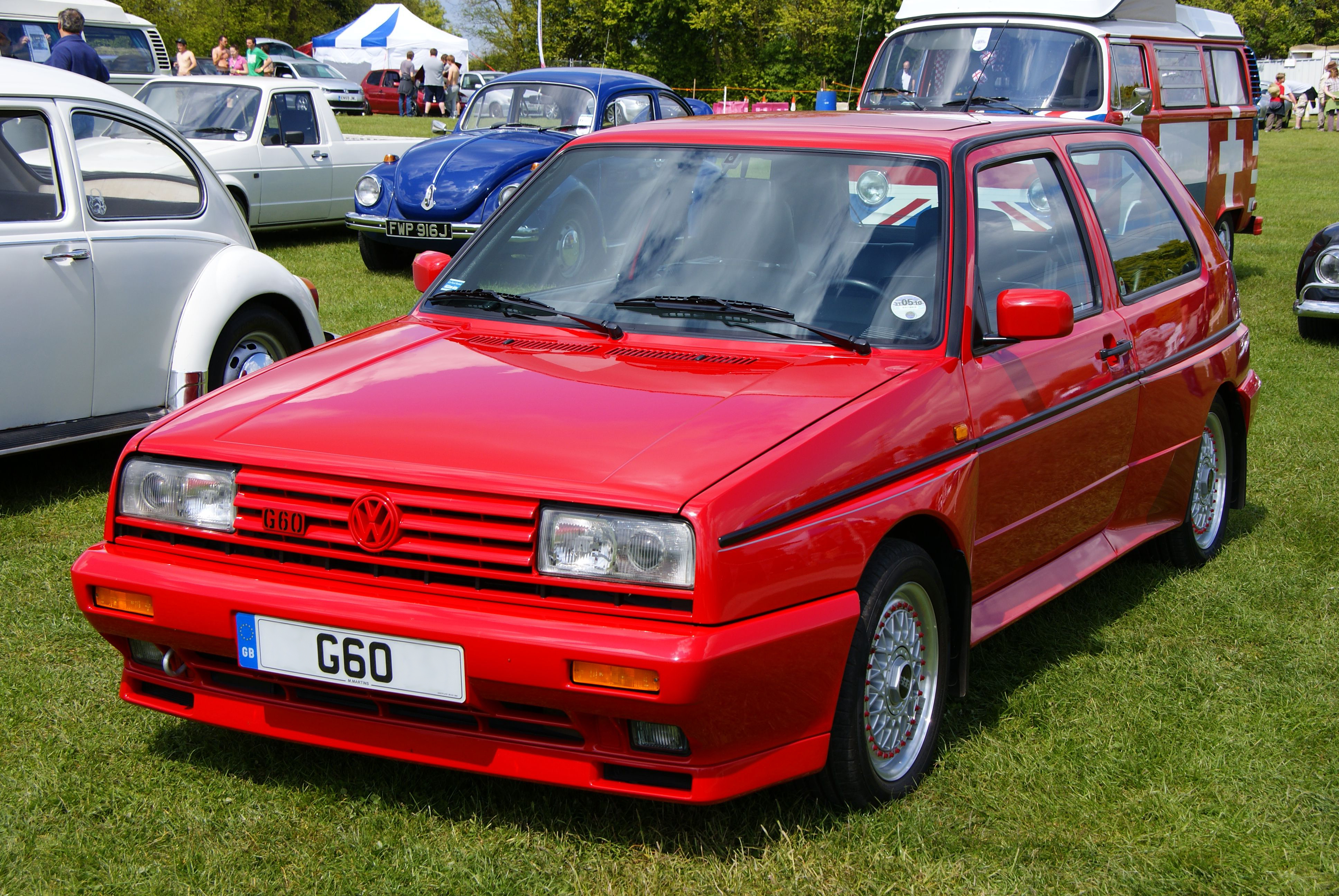 1990 VW Golf Rallye G60 at the Battlesbridge VW Event (2010)